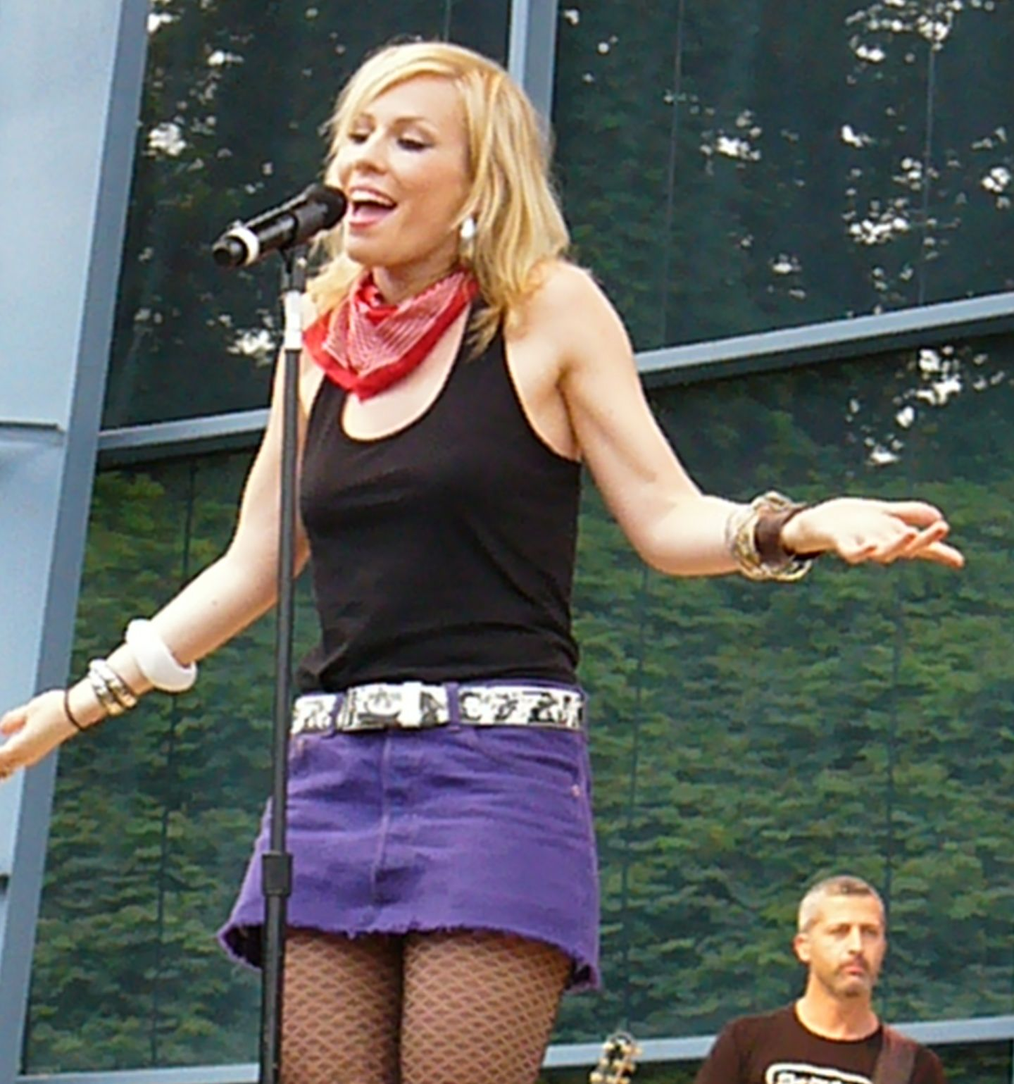 Picture taken by me at the Southern Star Amphitheater at Six Flags over Georgia in Austell, Georgia, USA on July 13, 2008.